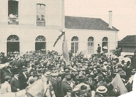 Participants of an excursion of Lisbon casheirs leaving the Caldas da Rainha railway station, in Portugal, in 1912. This image was published on the Ilustração Portuguesa magazine No. 339 (II Series), of the 19th August 1912, and scanned by the Hemeroteca Municipal de Lisboa.